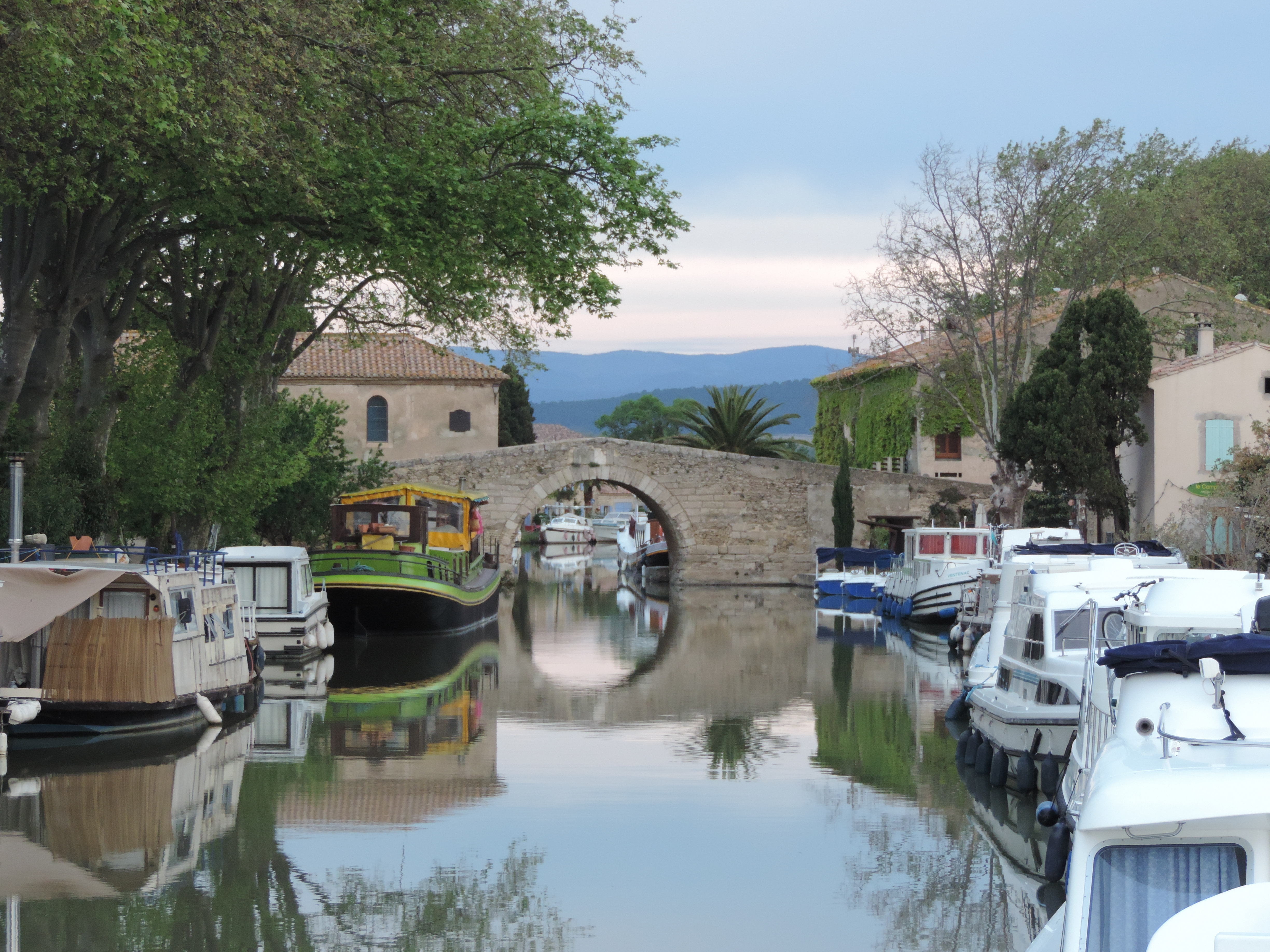 Canal du Midi at Le Somail